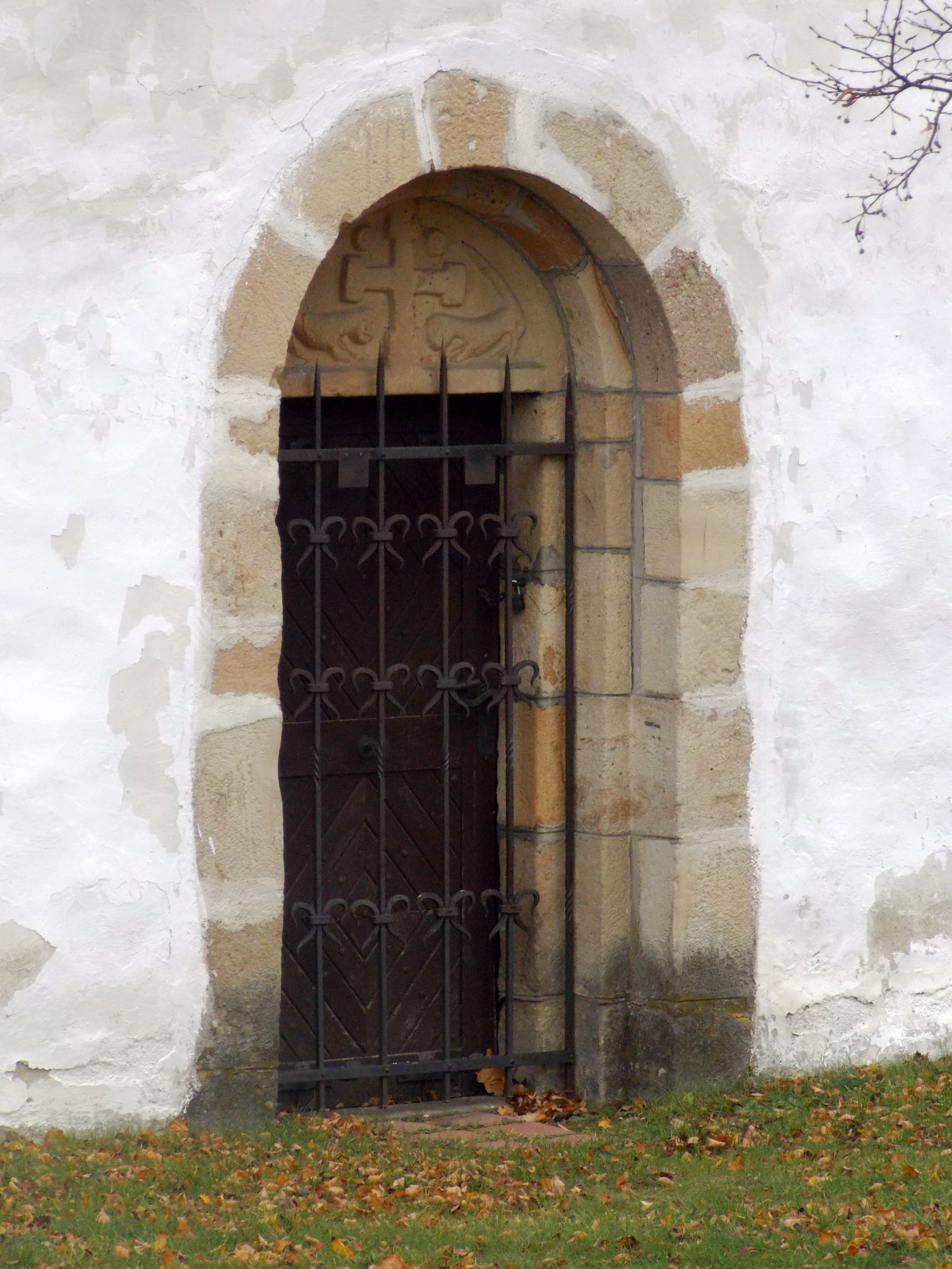 Romanesque arch of the Church Assumption Virgin Mary, Veveří, Brno, Moravia (Czech Republic) — early 13th century